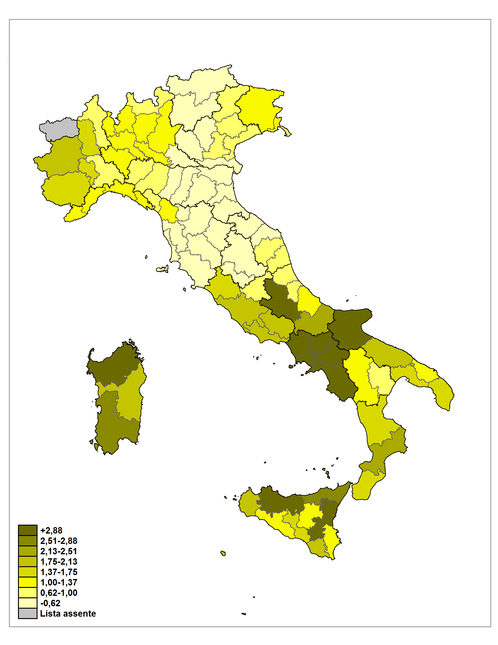 Distribuzione del voto per il PDIUM nelle elezioni del 1963